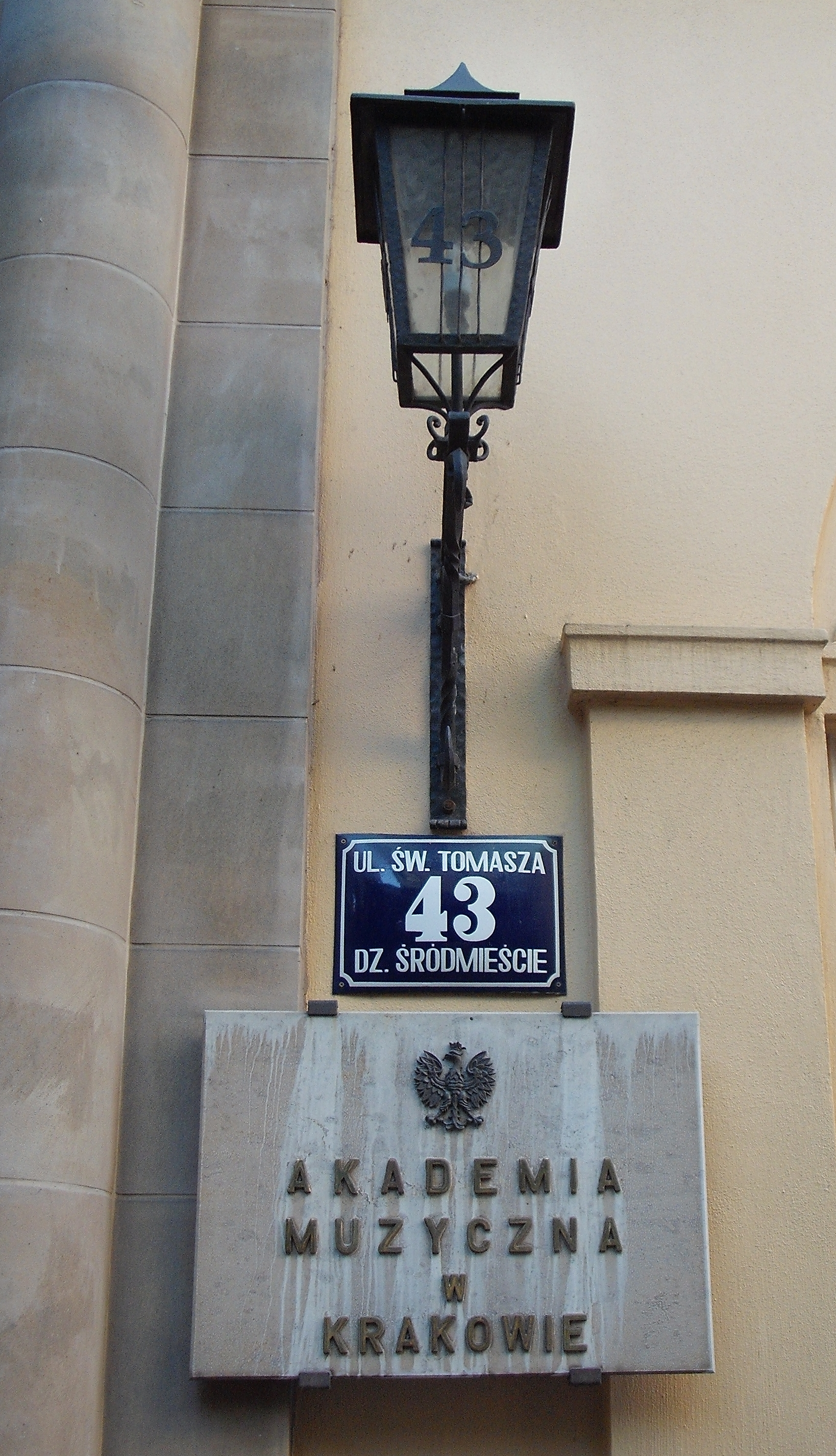 Academy of Music in Kraków (Cracow), 43 St Thomas Street